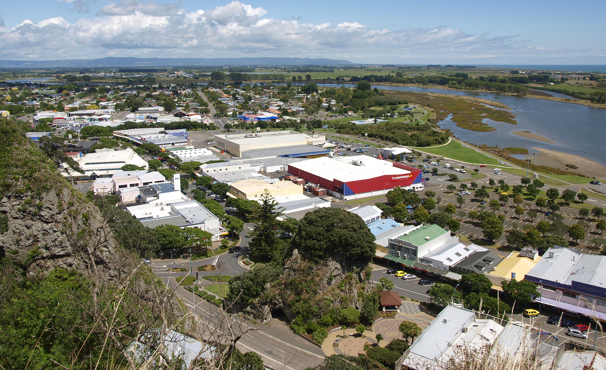 Whakatane, Bay of Plenty, New Zealand (Part of the Town) with Whakatane River and Rangitaiki Plain in background.